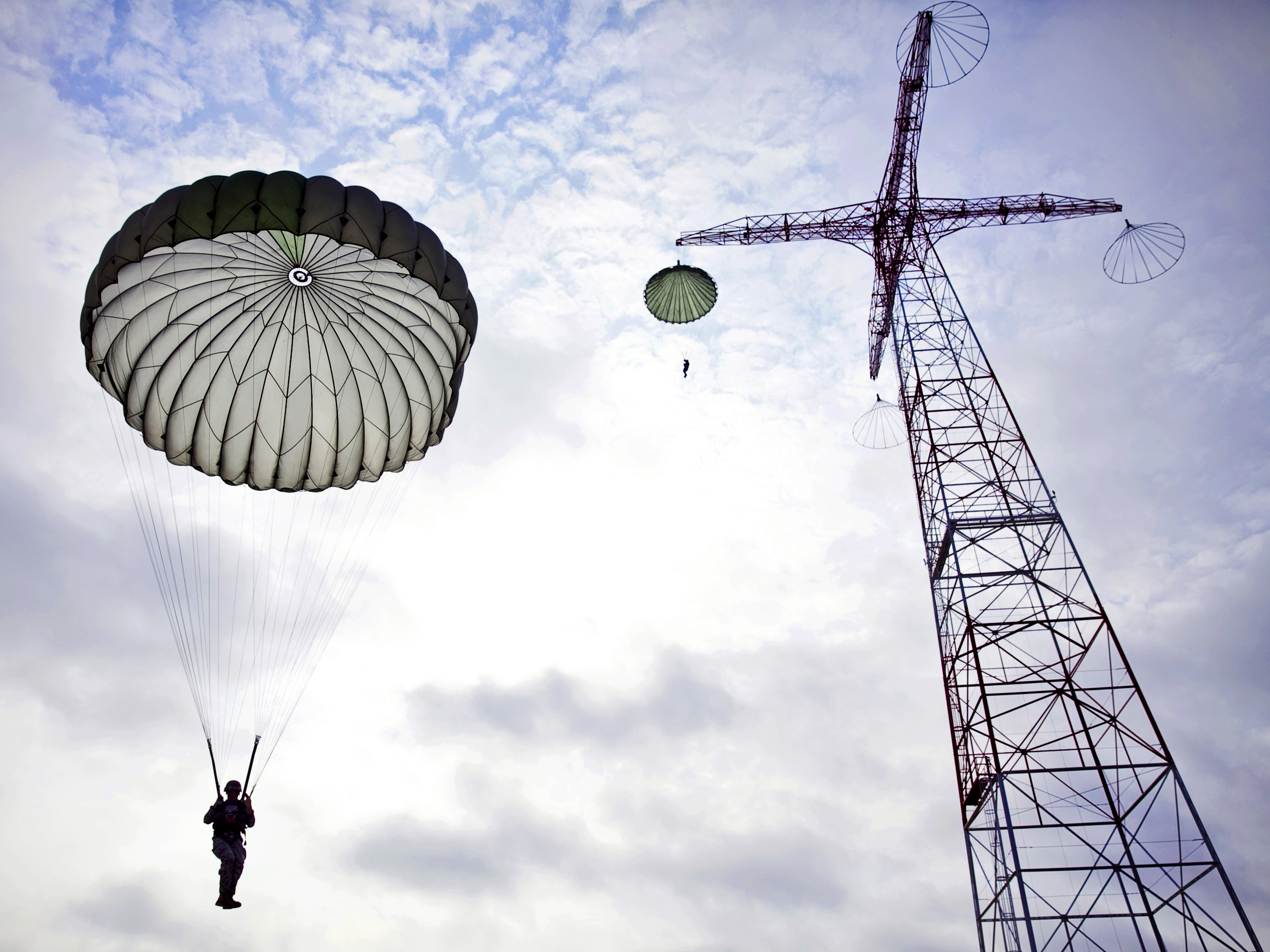 A Soldier is dropped from the 250 foot tower with a T-10 Parachute during Airborne School, August 7, 2013 at Fort Benning. Airborne School consists of three weeks of training, ground week, tower week, and jump week. (Photo by Ashley Cross/U.S. Army Photo)